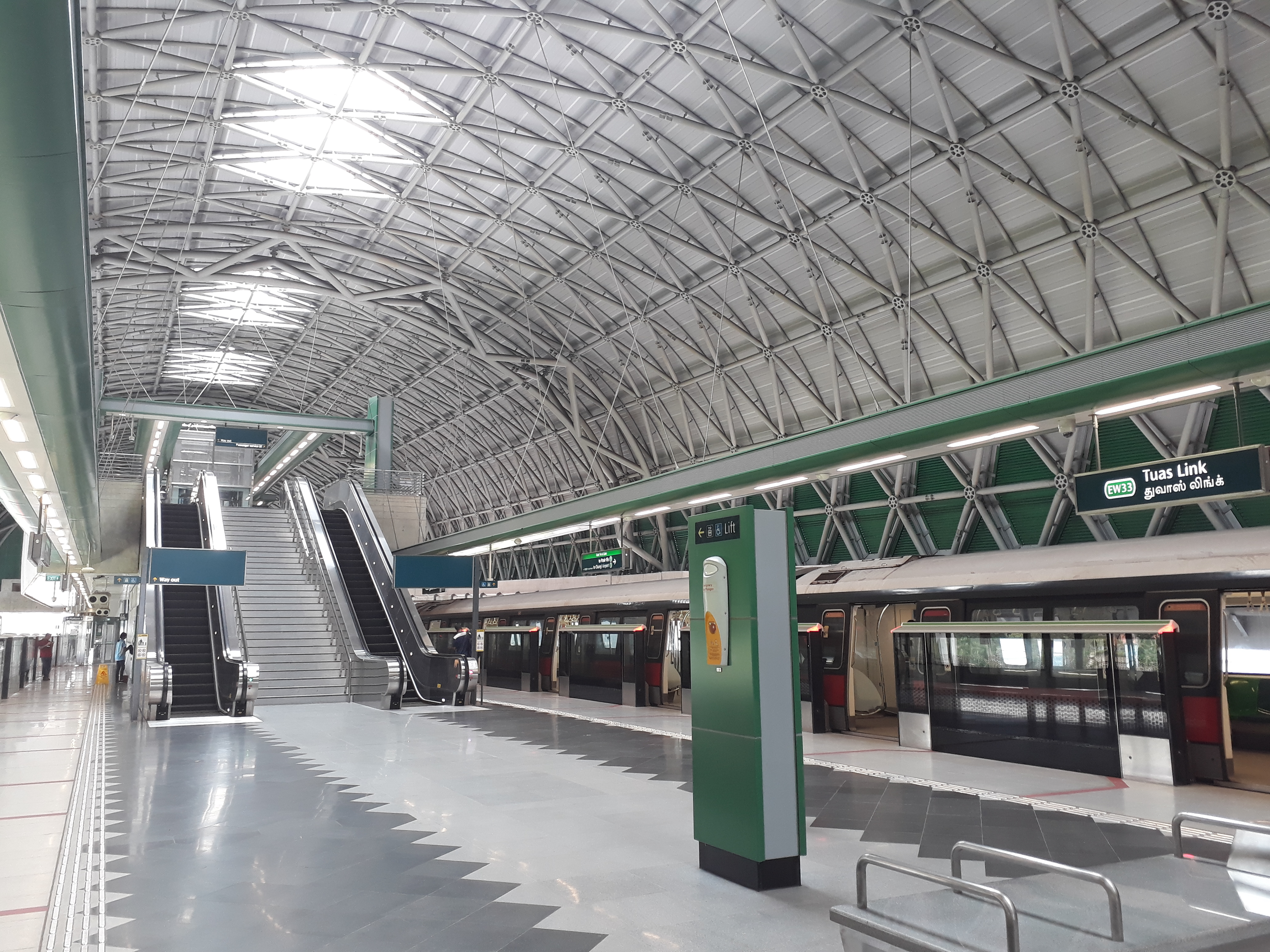 Platform level of Tuas Link